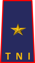 Air First Marshal rank insignia that used on daily uniforms of Indonesian Air Force (holder of command)